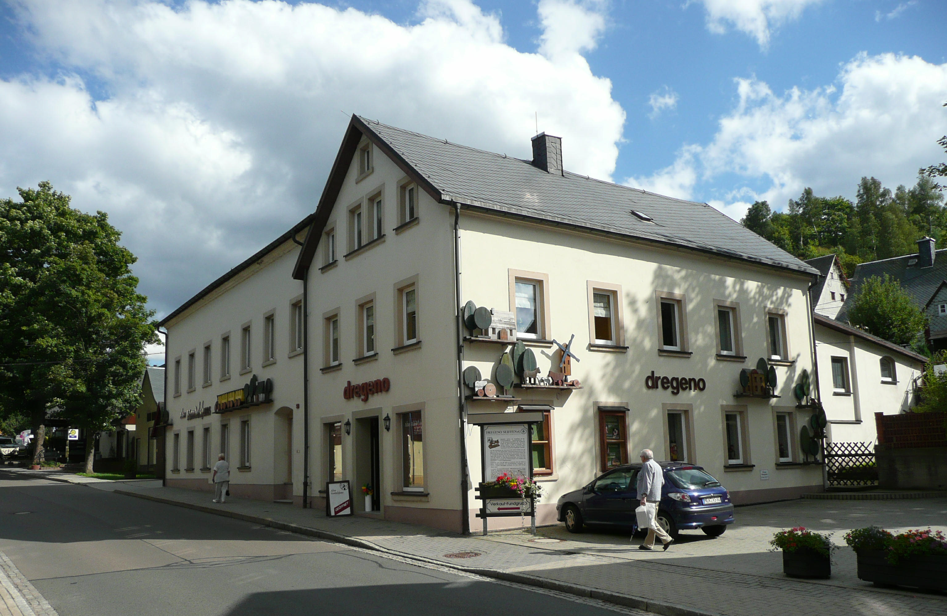 Seiffen: administrative center of the DREGENO, a cooperative of the Drechsler, sculptors, wood and play goods manufacturer in Seiffen.